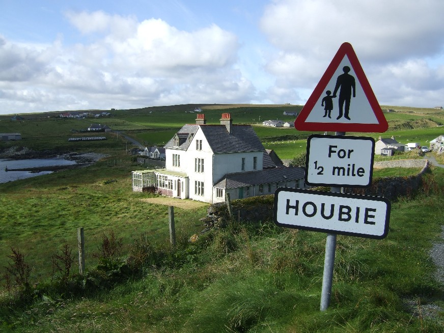 Buildings in Houbie, Fetlar, Shetland Islands. In front is Leagarth House, built by William Watson Cheyne and still owned by his descendants